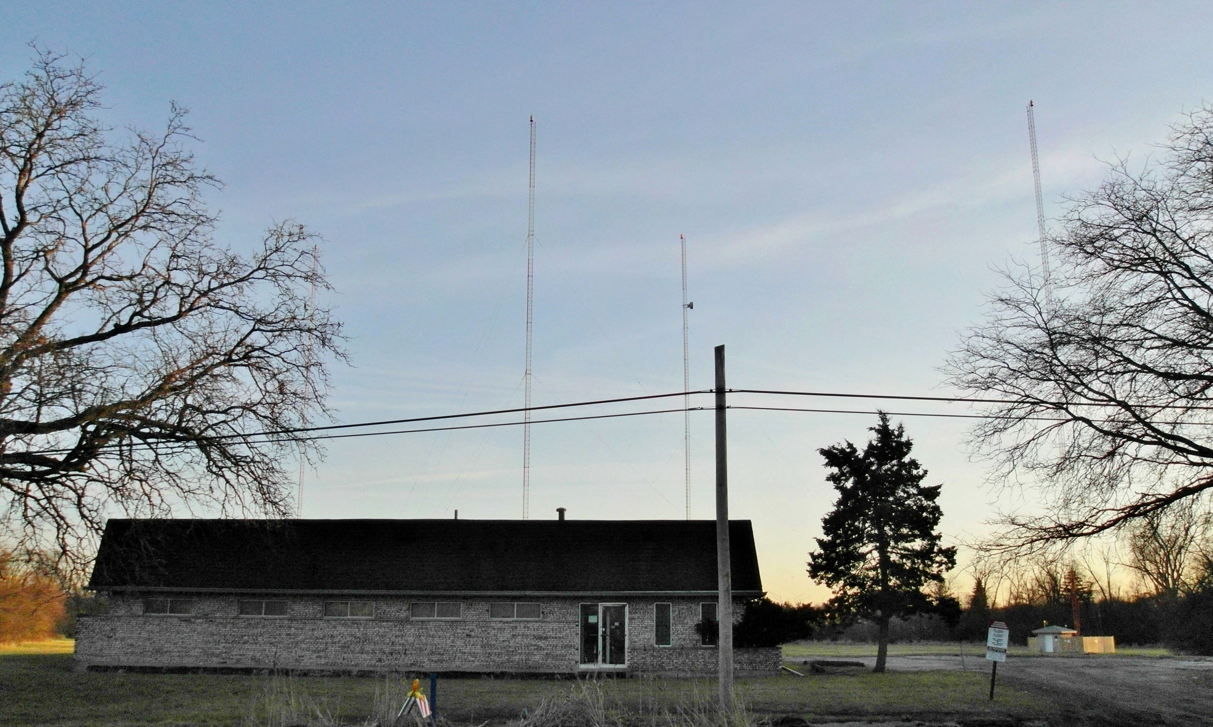 WYLL's daytime transmitter site in Des Plaines, Illinois.